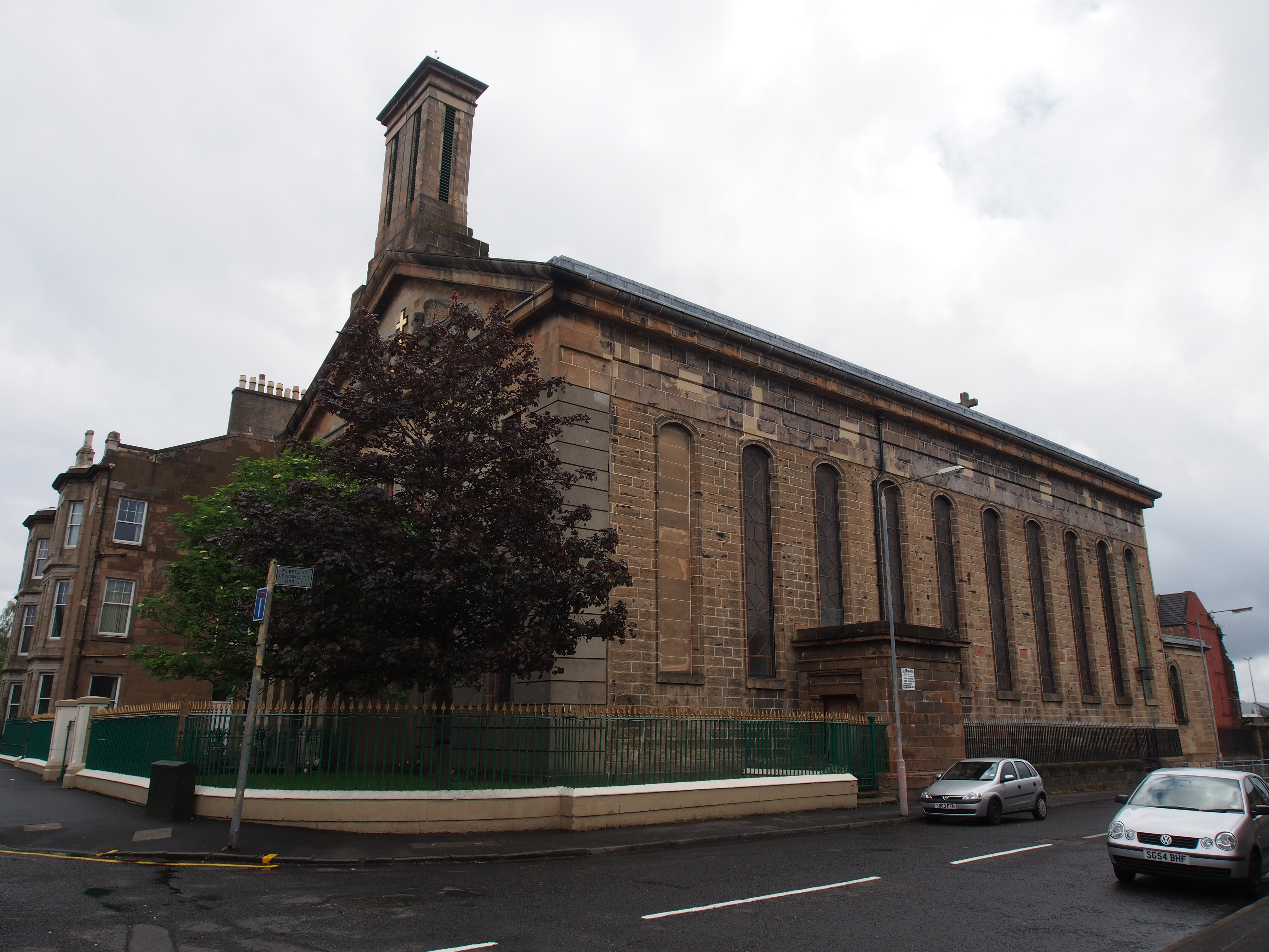 Exterior image of St Mary's Calton, from the other side of Forbes Street.